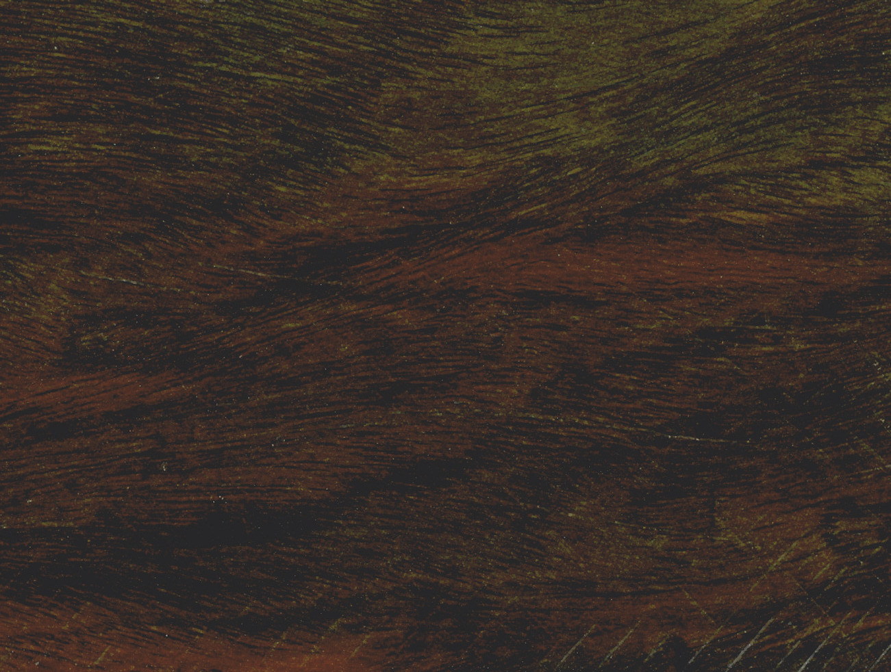 Heartwood of Lignum Vitae (Guaiacum officinale).